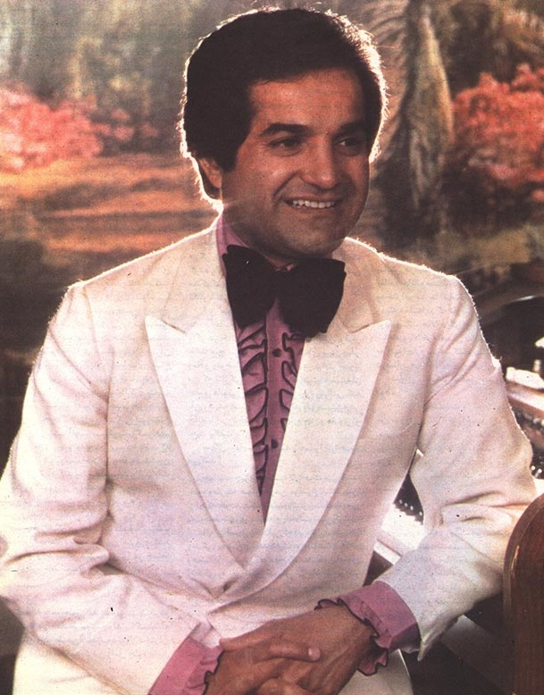 Anoushiravan Rohani from Zan-e Rooz, Issue 700 - 7 October 1978